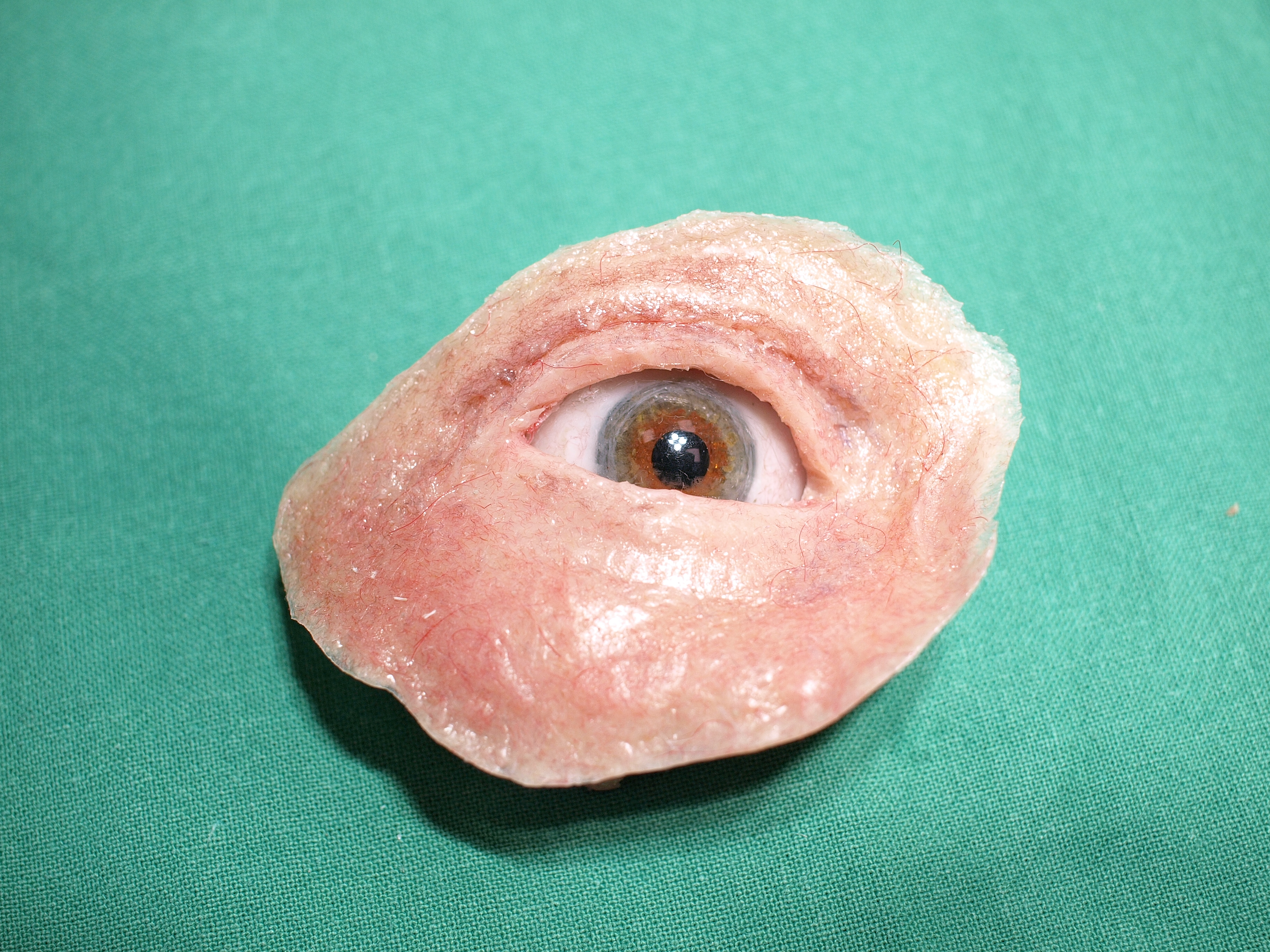 Orbita prosthesis made of glass and silicon used in patient after enucleation of the right eye due to carcinoma